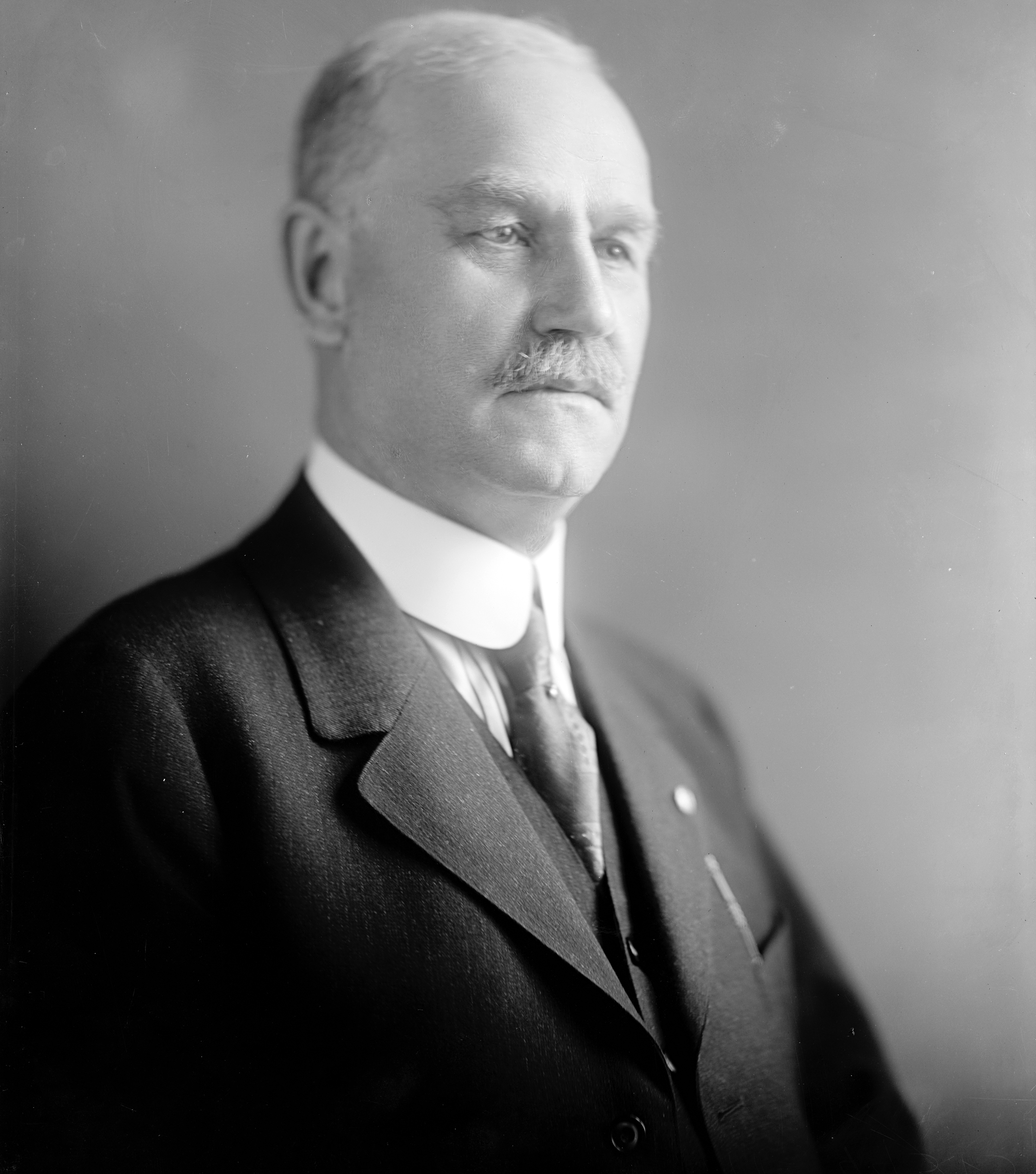 John Marshall Rose, US Representative from Pennsylvania